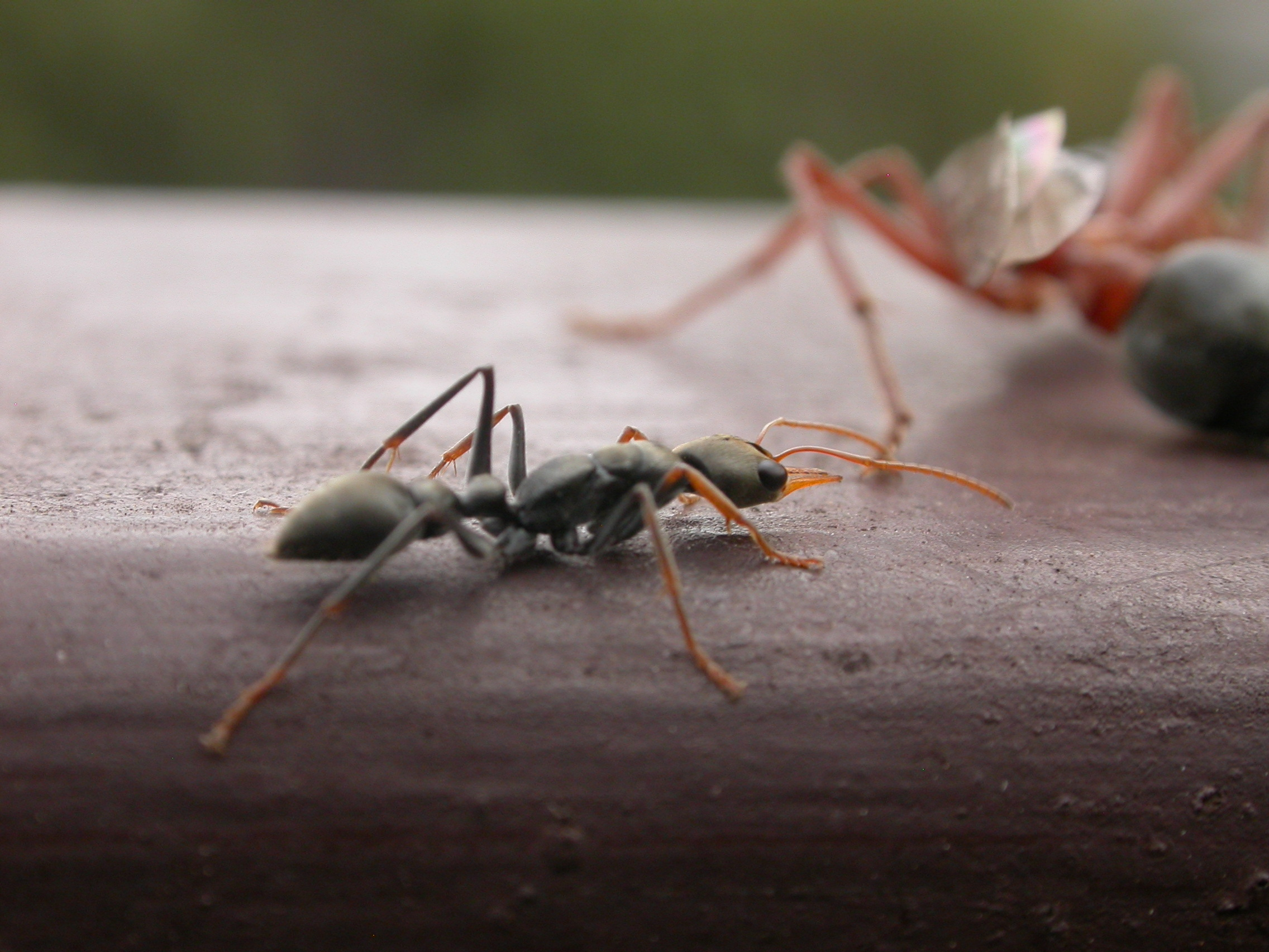 Myrmecia sp. (from the M. pilosula species group), worker, approaching M. nigriceps queen, Black Mountain, Canberra, ACT, 17 February 2009